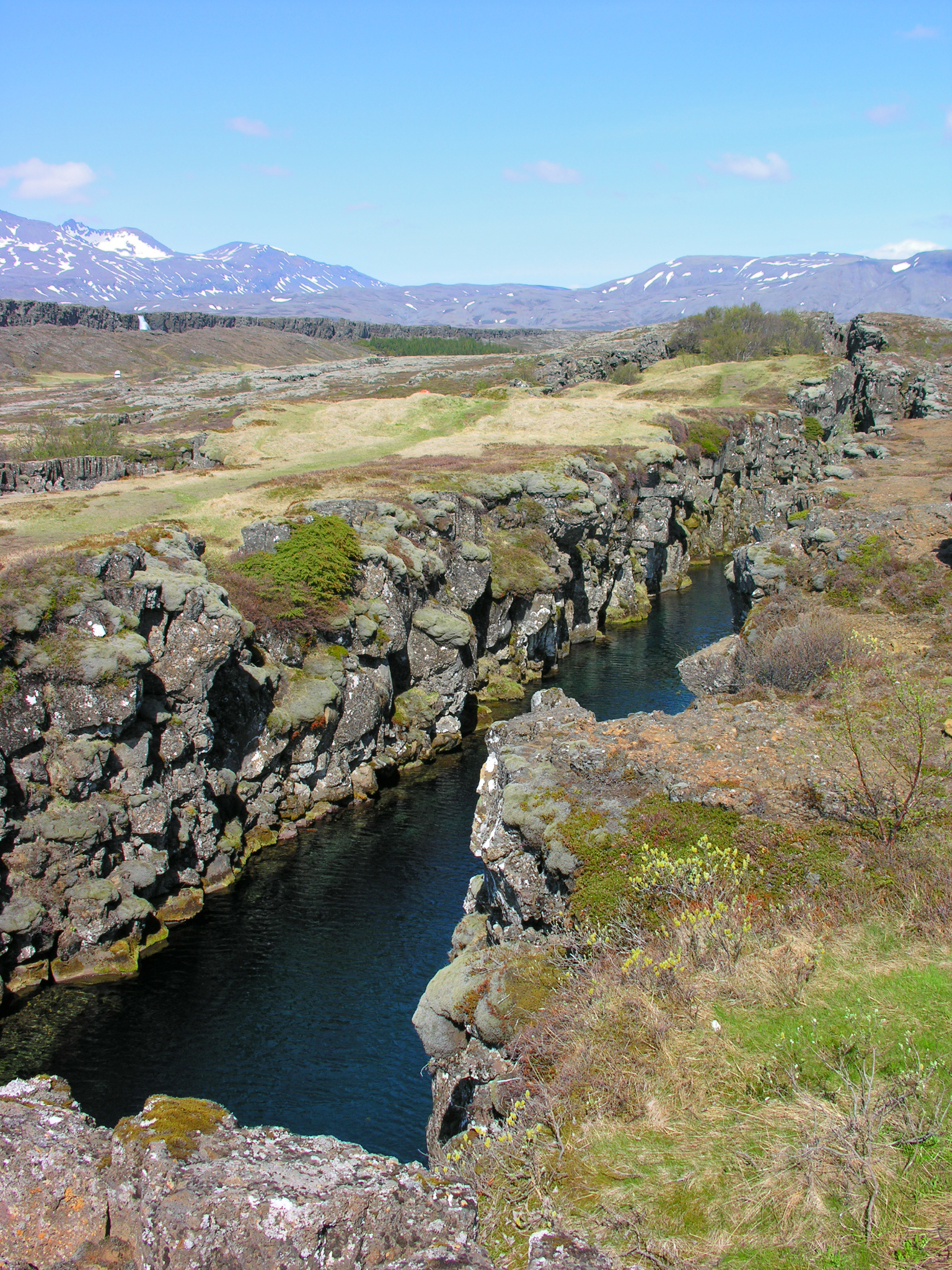 Iceland, a day around Þingvallavatn